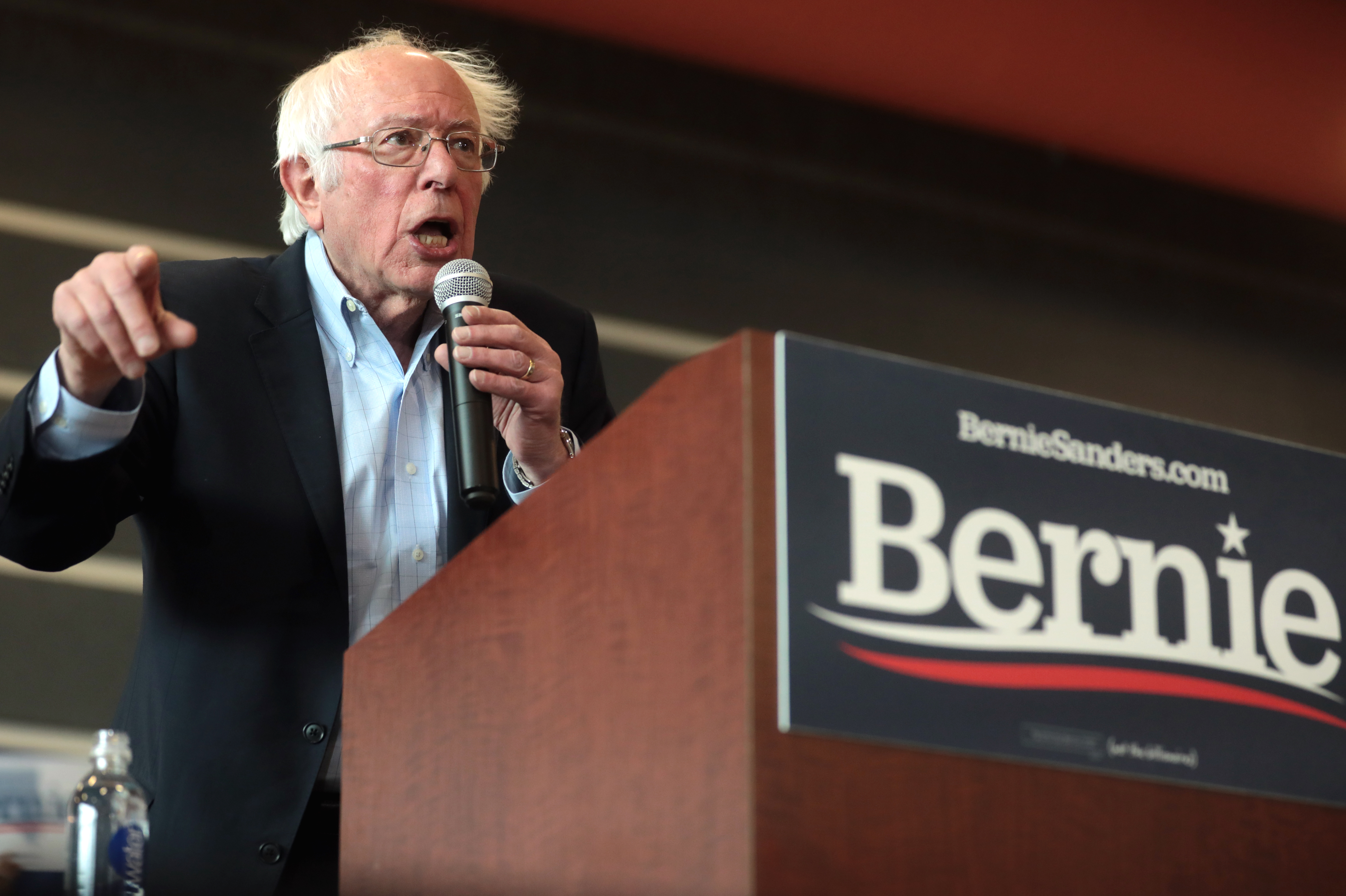 U.S. Senator Bernie Sanders speaking with supporters at a campaign rally at Desert Pines High School in Las Vegas, Nevada.